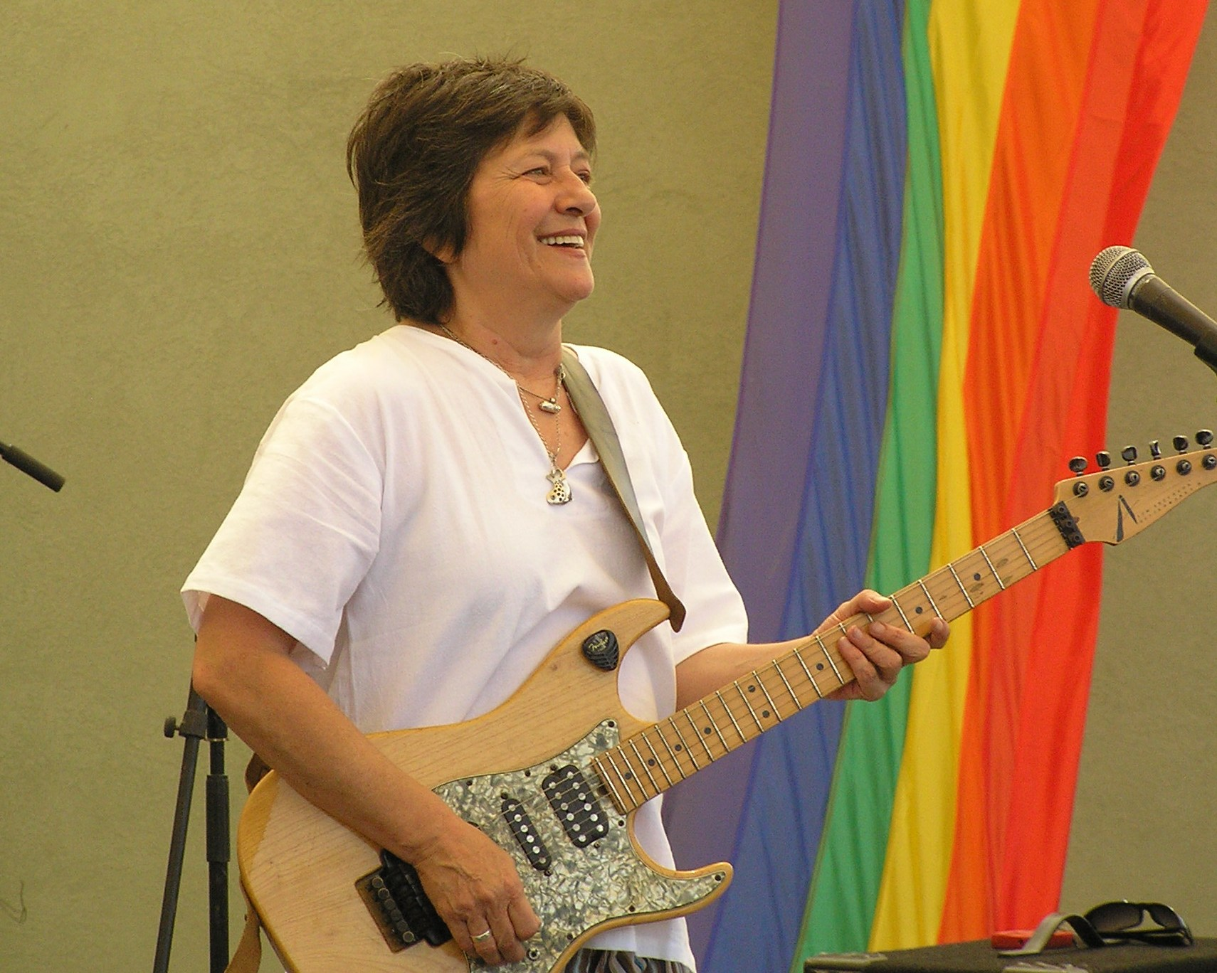 Israeli singer Corinne Allal performing in Beersheba's first Pride event